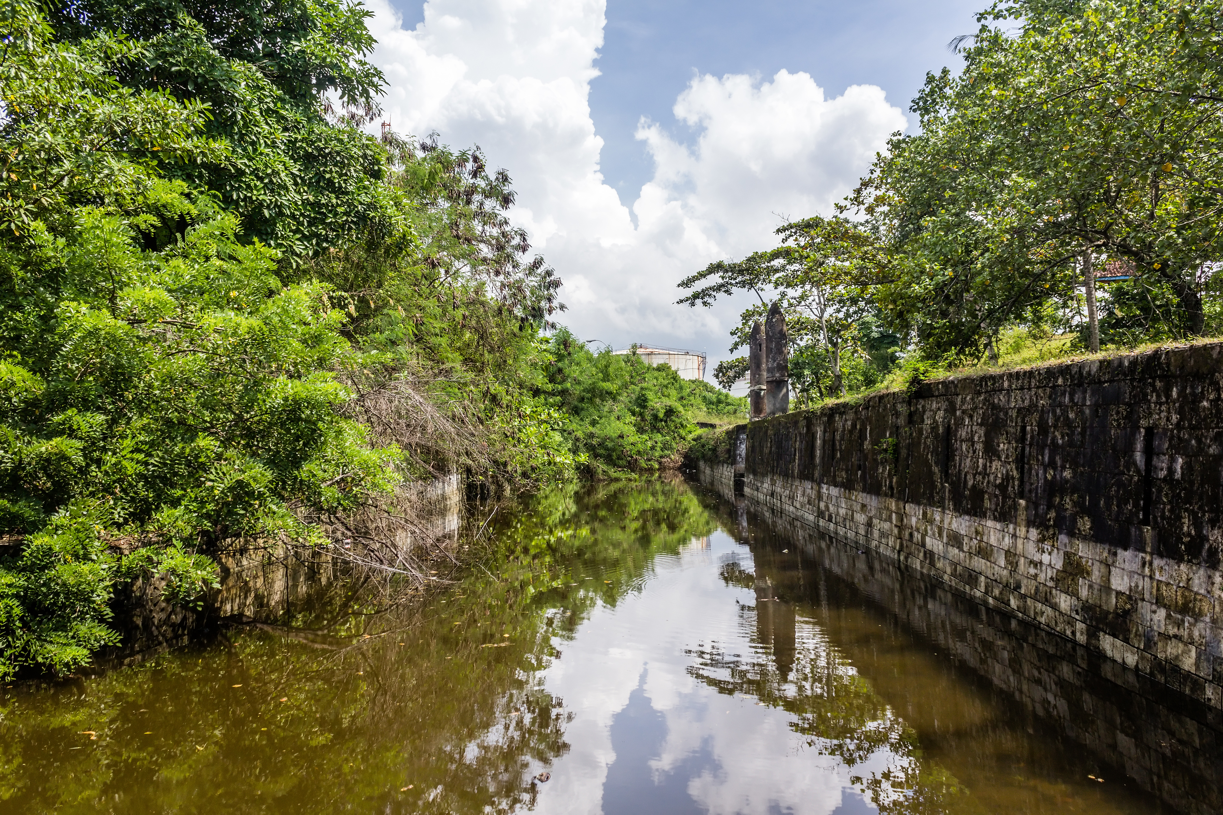 Moat, Benteng Pendem, Cilacap 2015-03-21